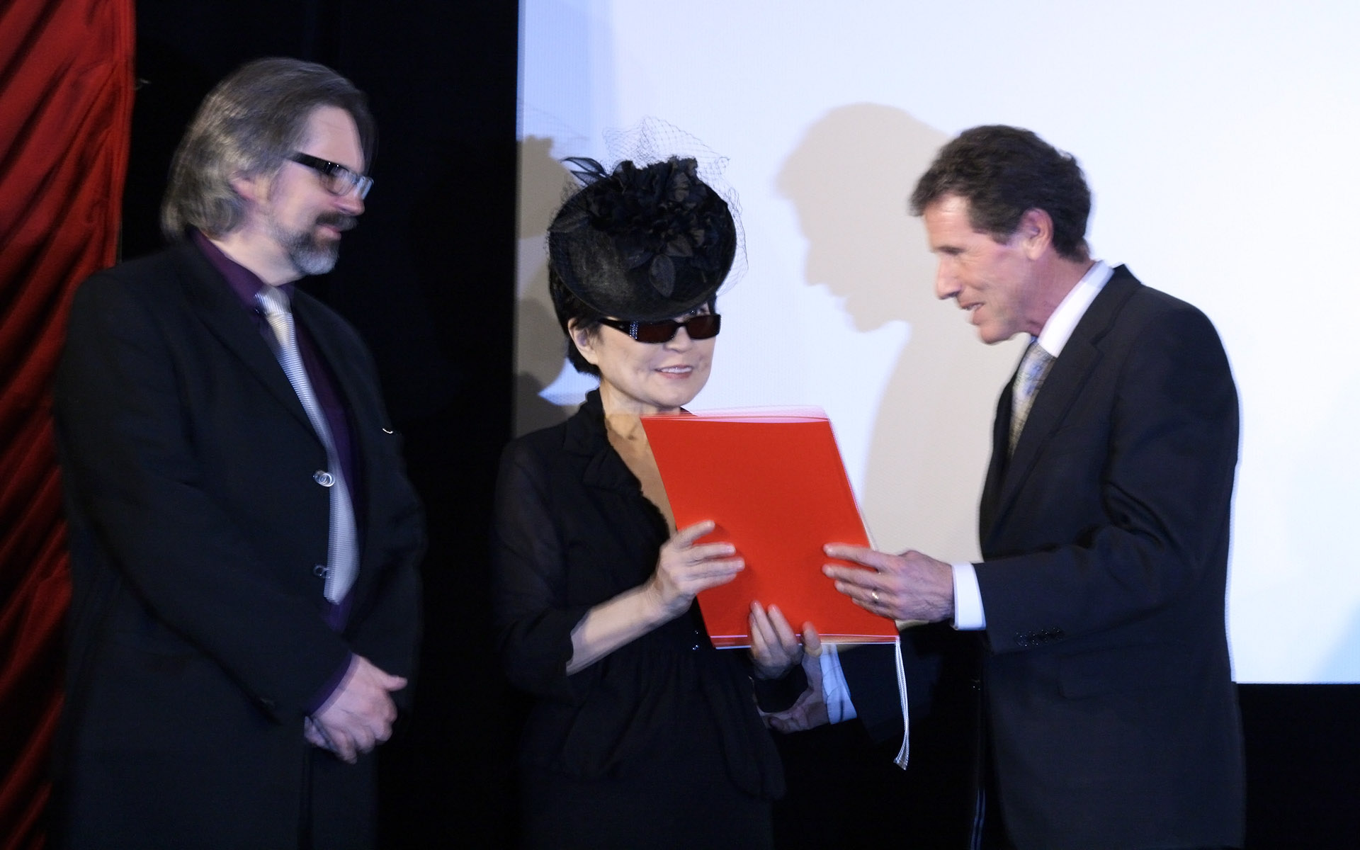 Yoko Ono at the ceremony of the Oskar Kokoschka Award 2012 at the Gartenbaukino in Vienna, with Karlheinz Töchterle and Gerald Bast.